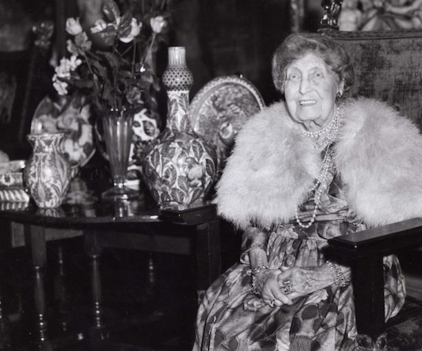 Photo of Mrs A M Wilhelmina Stirling, sister and biographer of artist Evelyn De Morgan